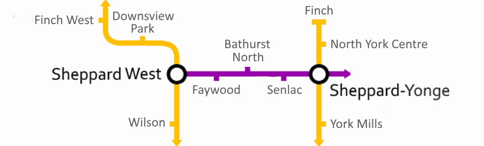 Sheppard Line 1 west extension